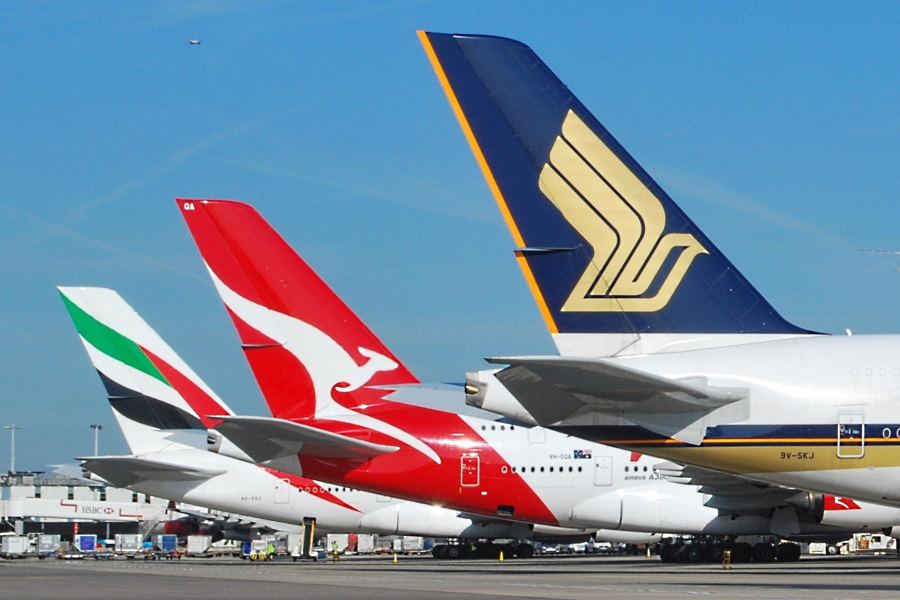 Line up of Airbus A380s on Heathrow's Pier 6